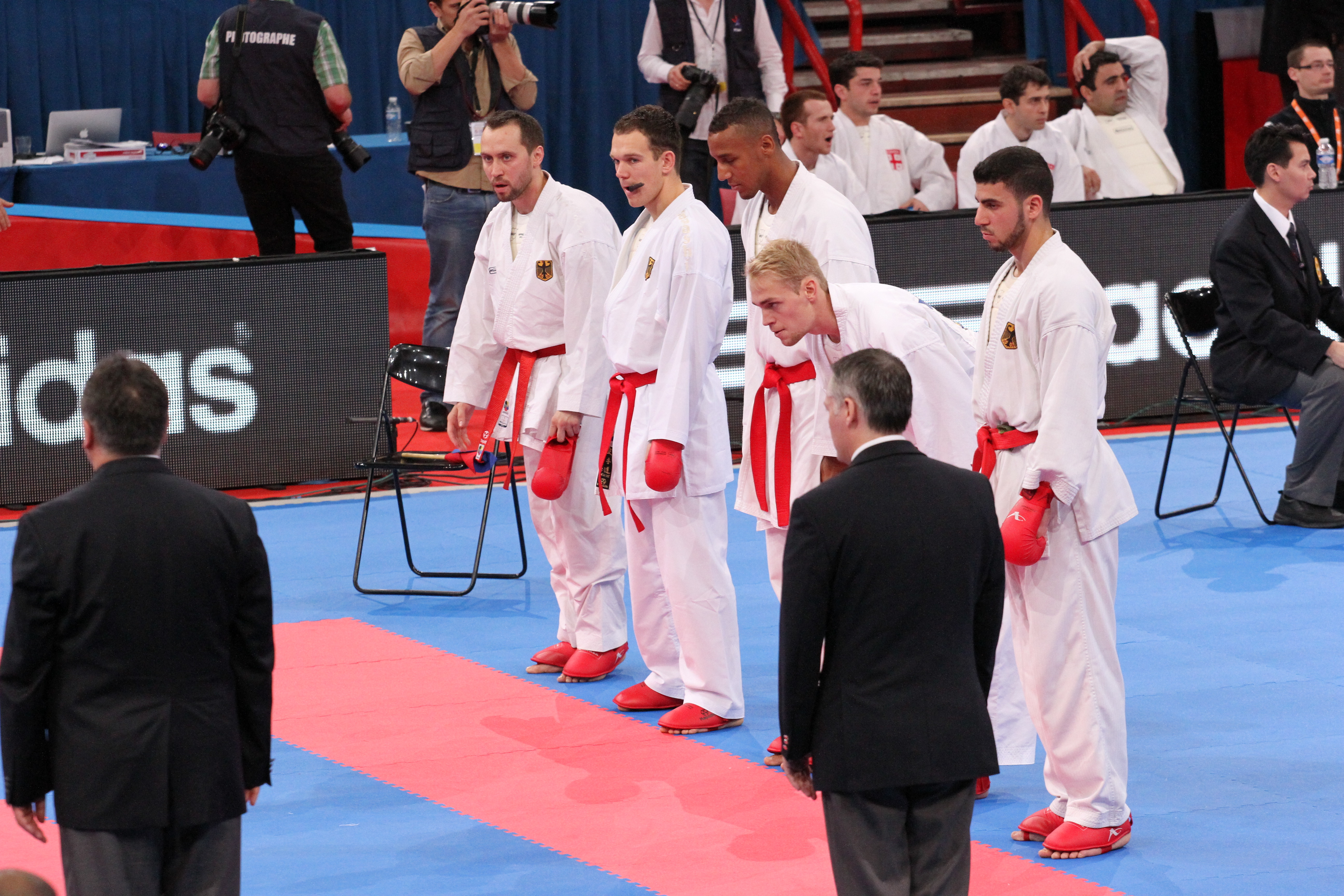 WKF-Karate World Championships 2012 in Paris (Team Germany)